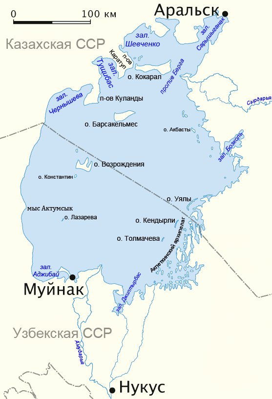 Map of Aral Sea in 1960, Russian language